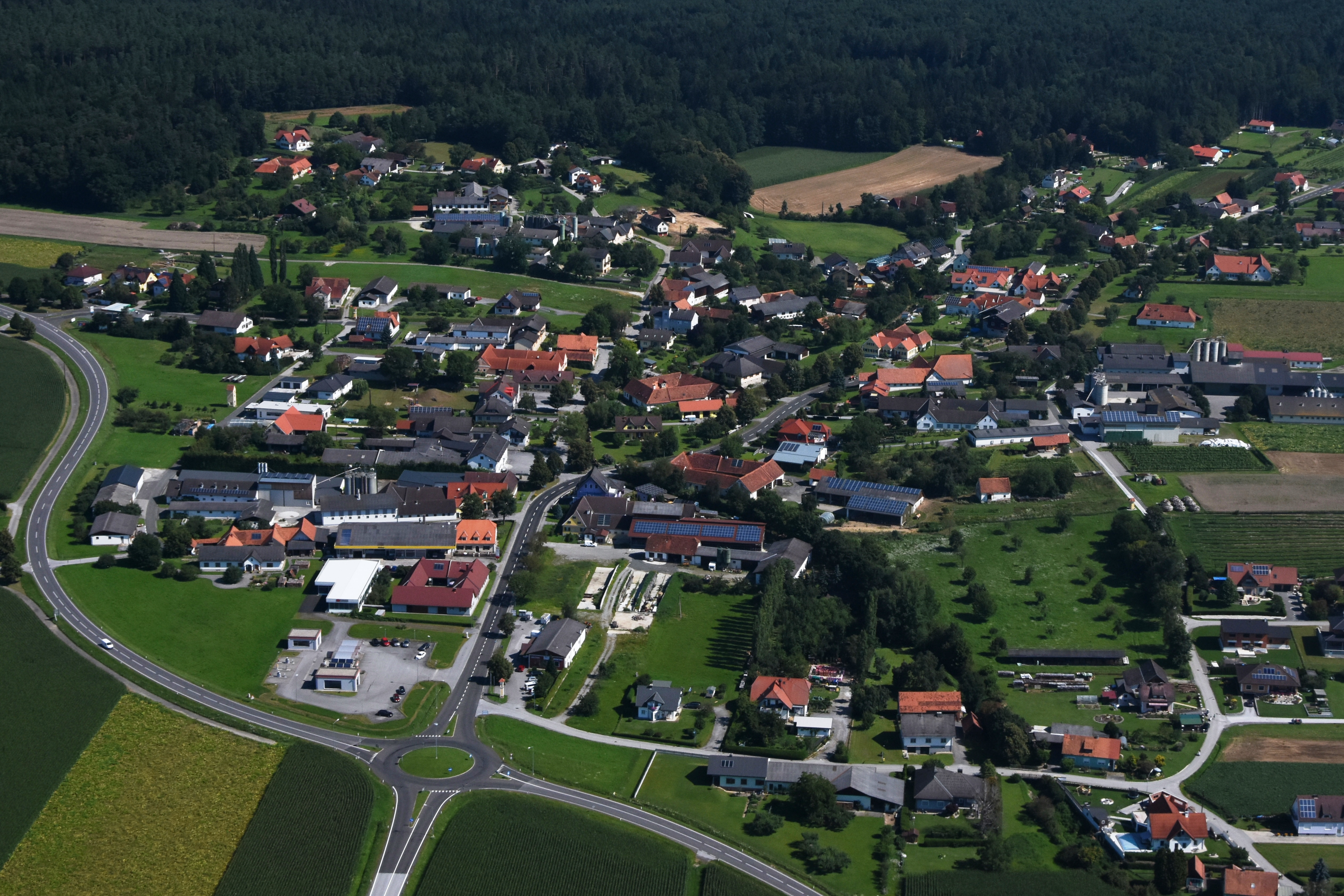 Großhartmannsdorf (Gemeinde Großsteinbach)